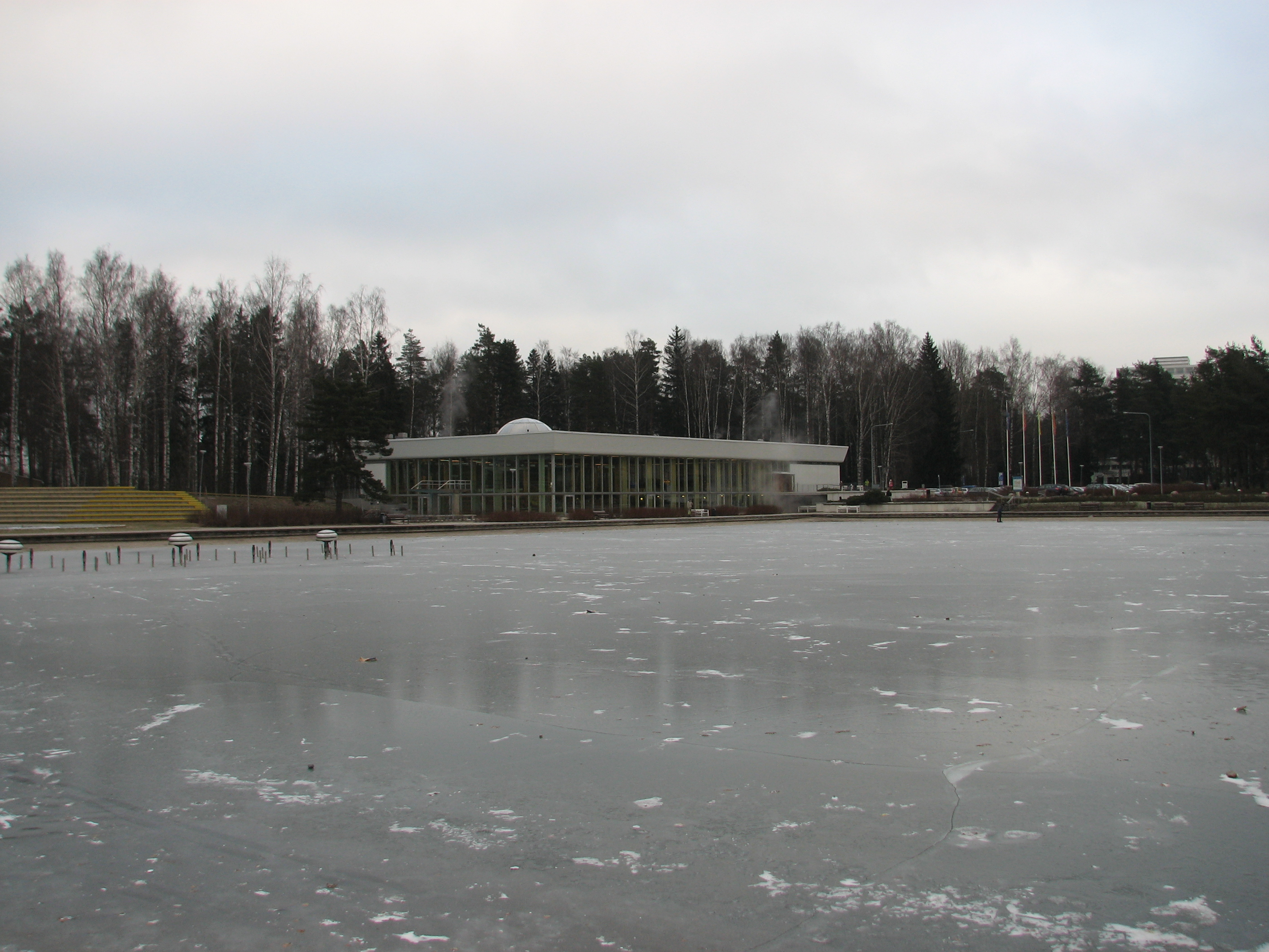 The Tapiola swimming pool, in Tapiola, Espoo, Finland, seen from the outside in January 2009. Because it is winter, the decorational fountain pool between the swimming pool and the Tapiola Garden Hotel has frozen solid.